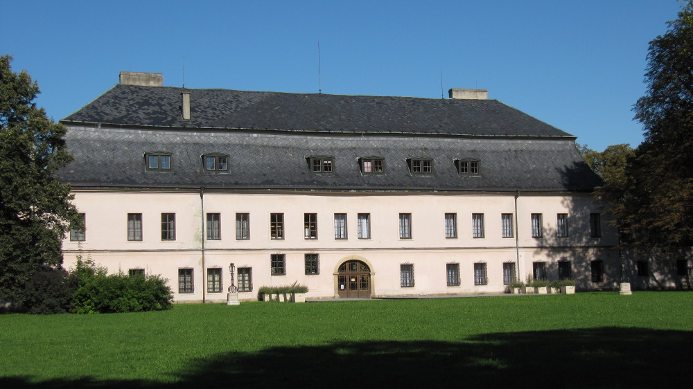 Kinsky castle, Valašské Meziříčí, the Czech Republic